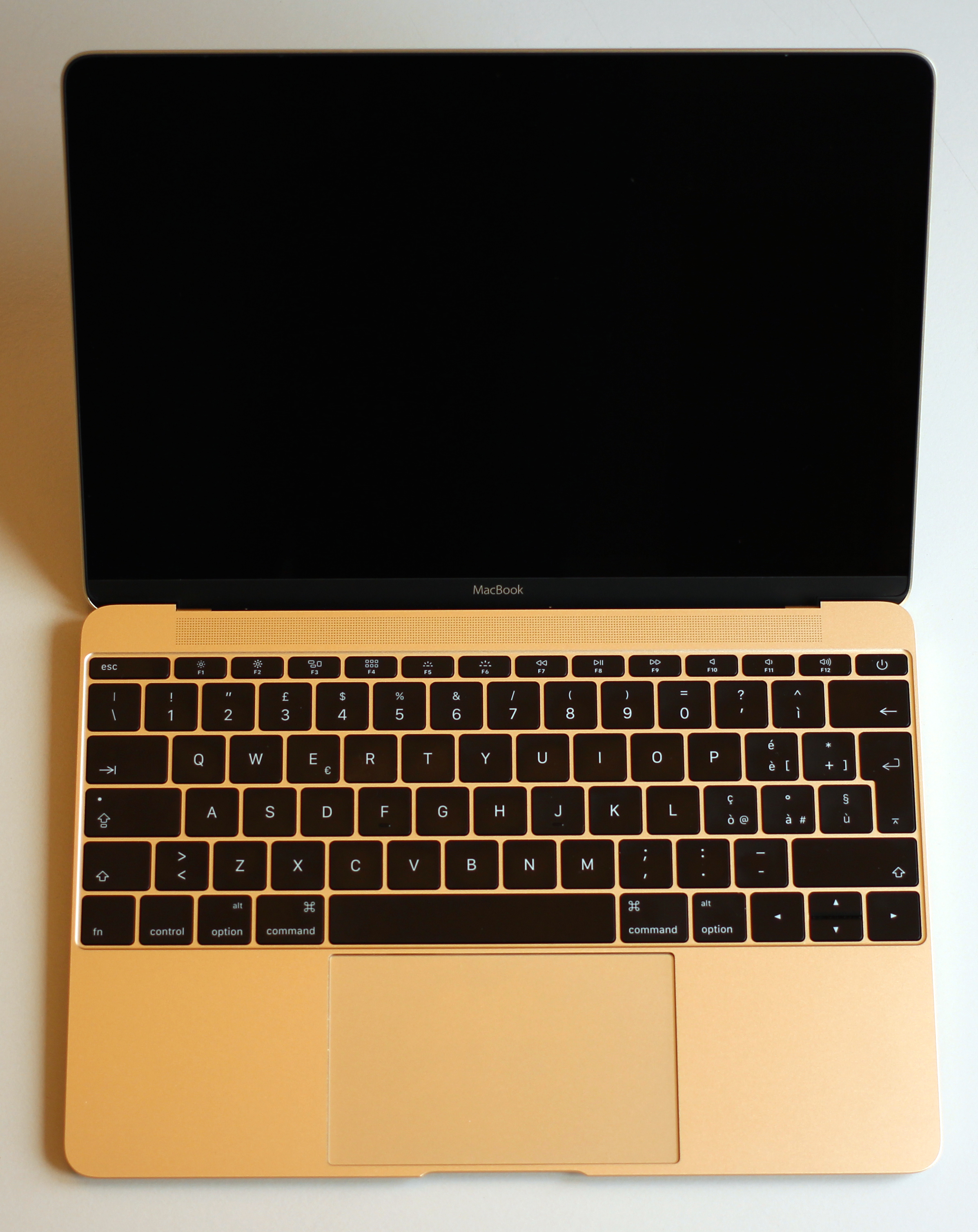 Photo of a MacBook with Retina Display (2015 model)